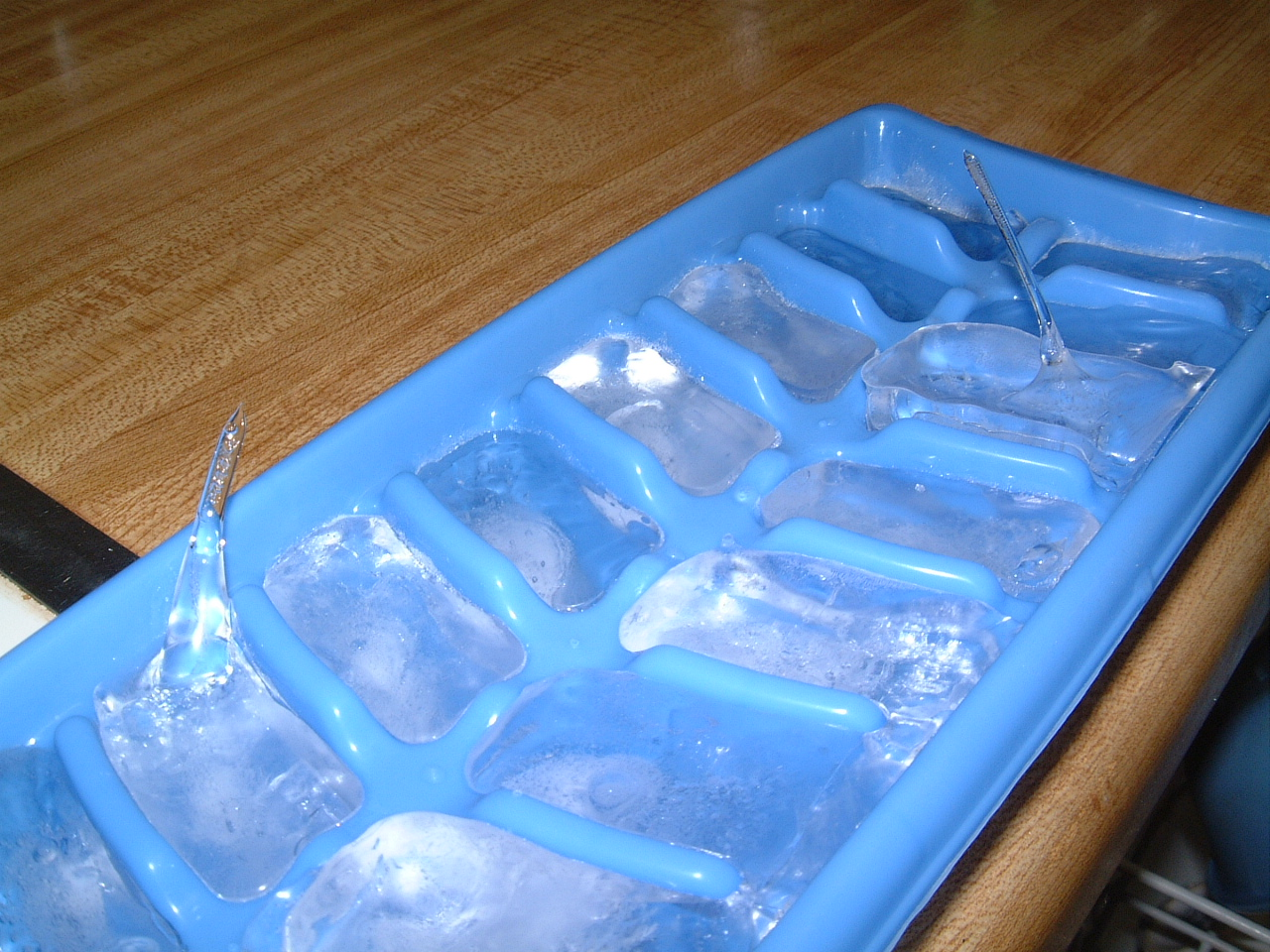 Ice spikes that grew out of purified-water ice cubes as they froze